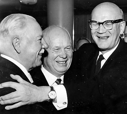 Soviet president Kliment Voroshilov, Communist Parry chairman Nikita Khrushchev, and Finnish president Urho Kekkonen.